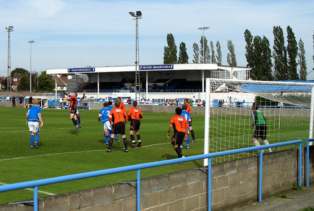 Wivenhoe Town (in the Orange Shirts) defend against Wingate & Finchley FC during a Ryman League Division 1 North match. In the background is the main stand of the Harry Abrahams Stadium, Finchley Wikidata has entry Q27087634 with data related to this item.